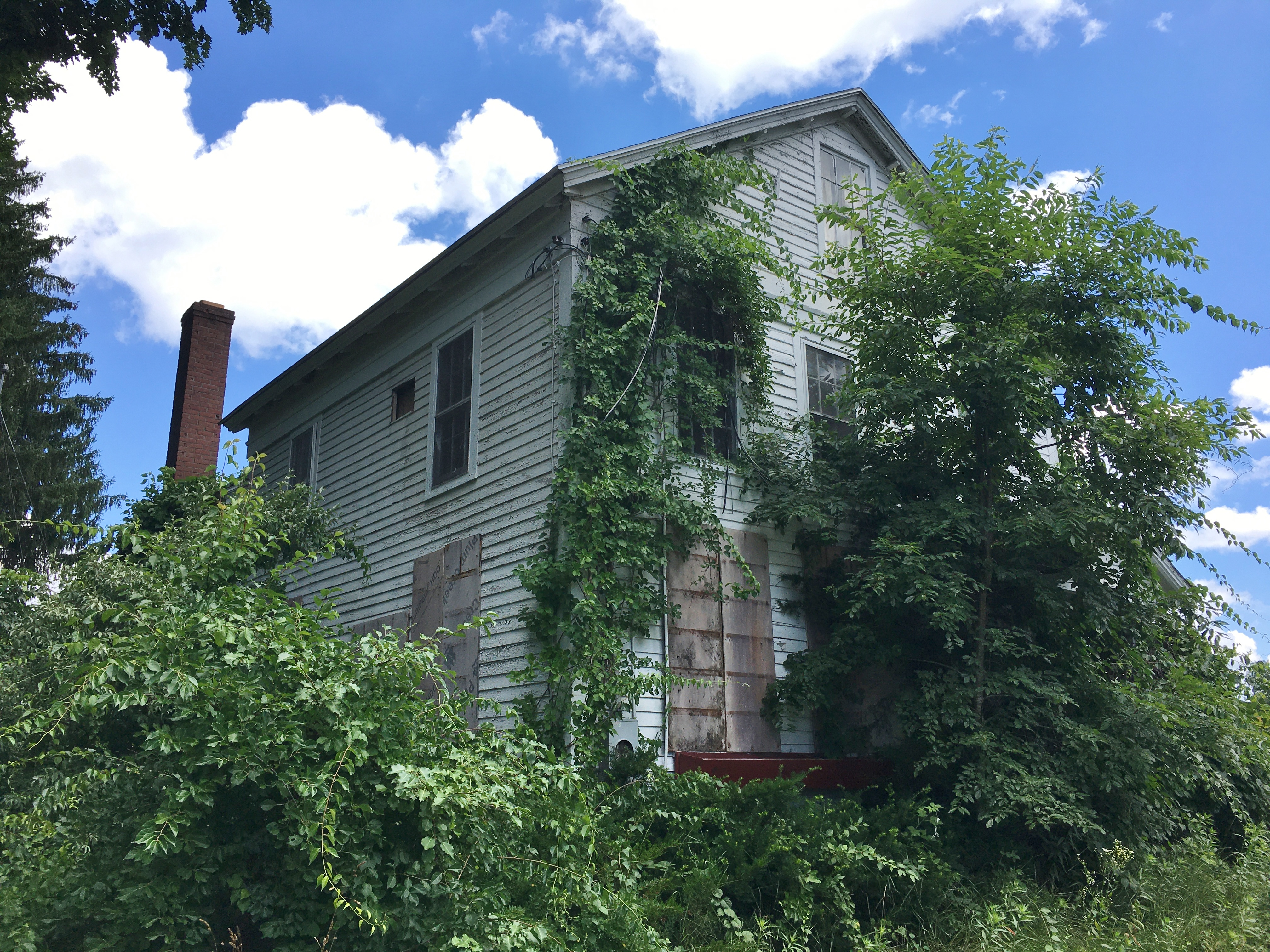 Photograph of an abandoned house located at Sunrise State Park in East Haddam, Connecticut.